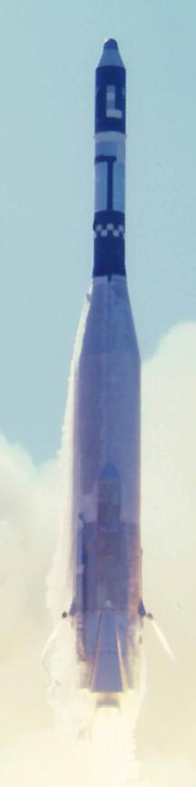 Launch of the Atlas SLV-3 Agena D rocket with satellite KH-7 23, November 8, 1965